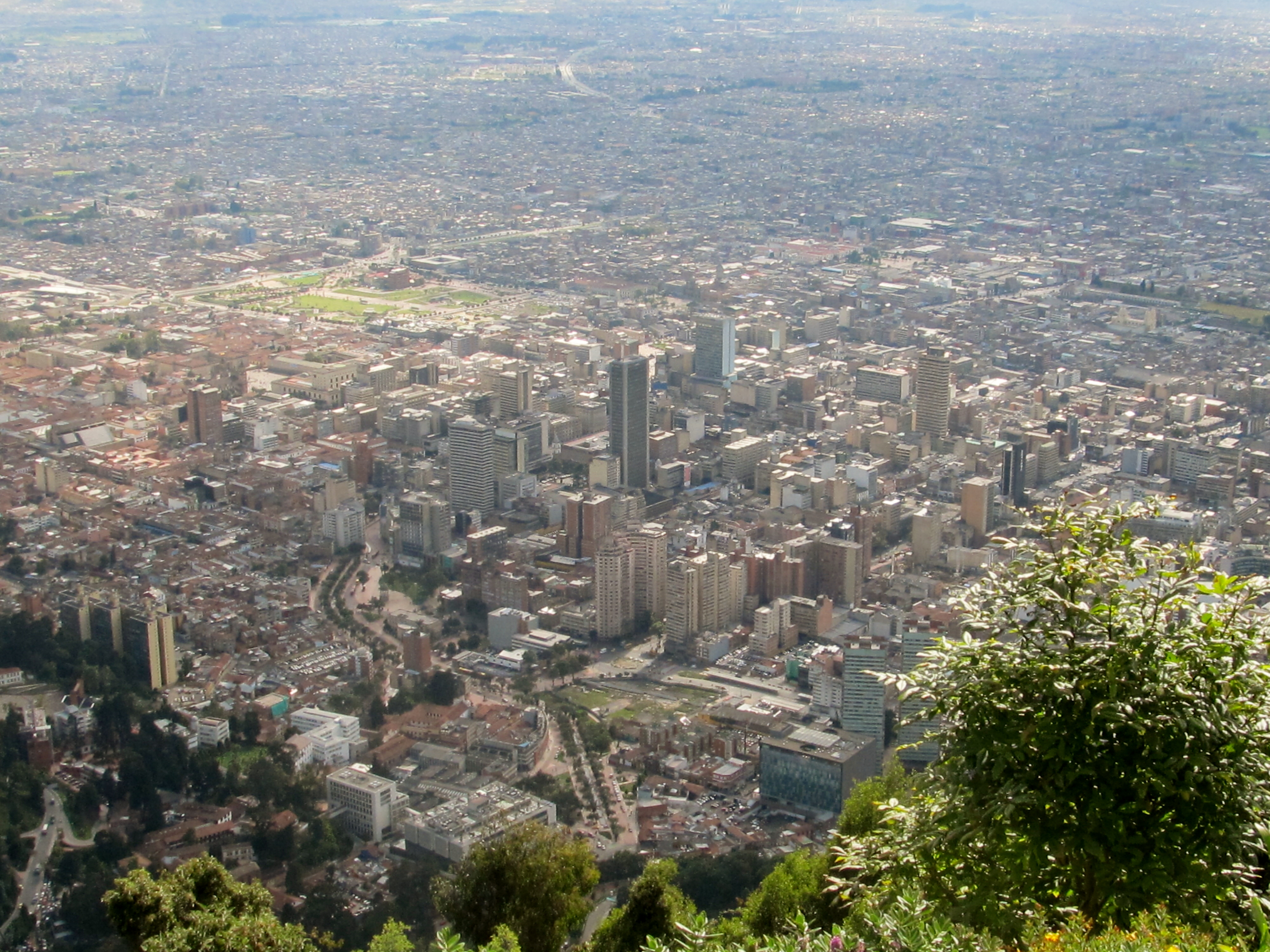 The city of Santa Fe de Bogota as seen from Monserrate.